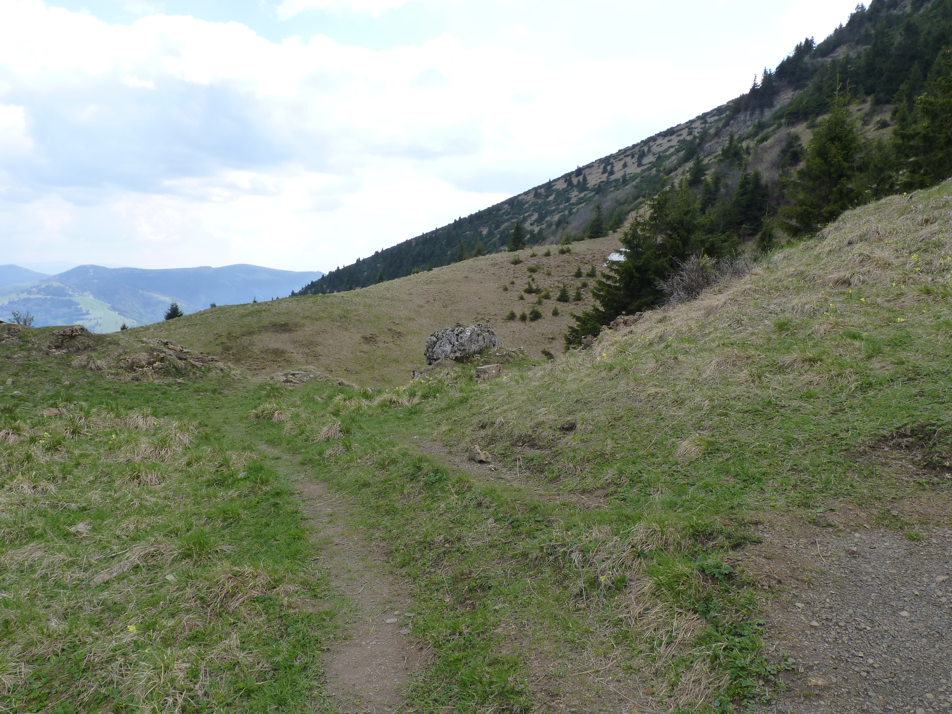 Great Fatra, Slovakia